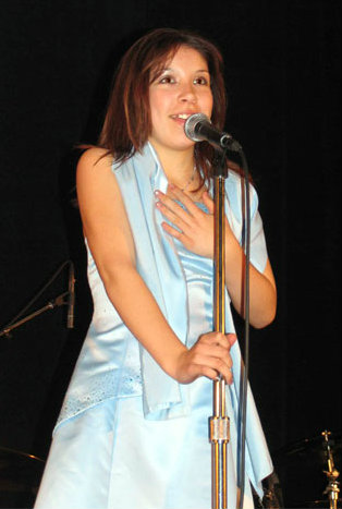 Carsen Gray actress.